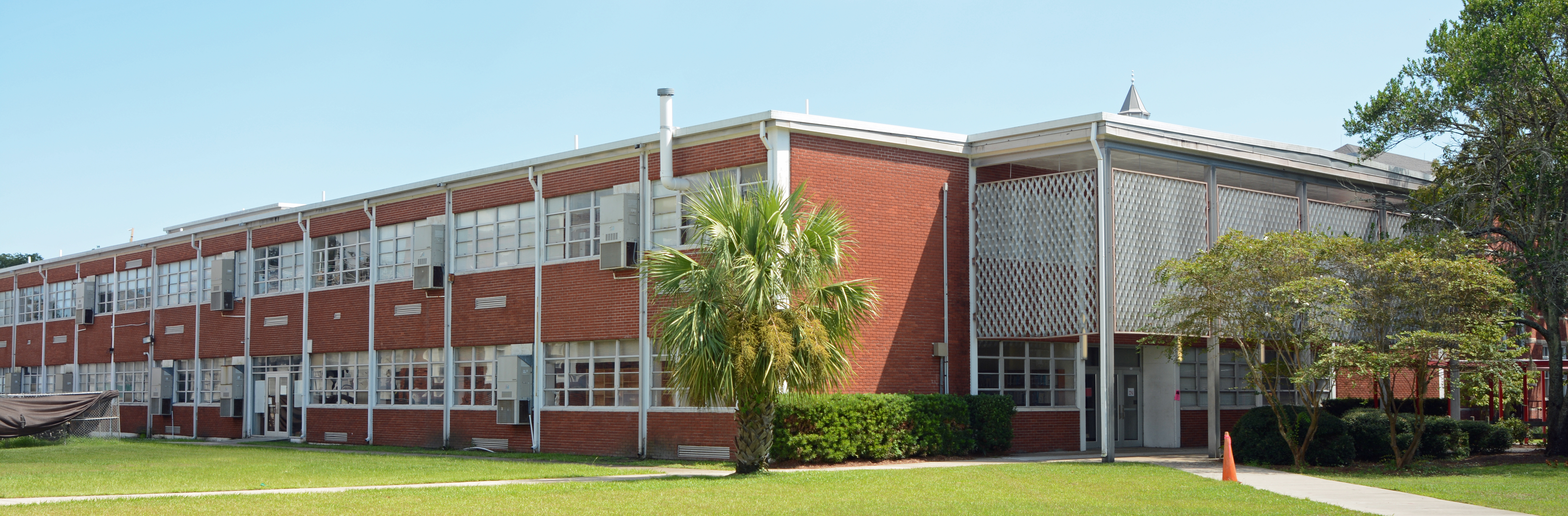 The Science Building at Glynn Academy, Brunswidk, Georgia, US